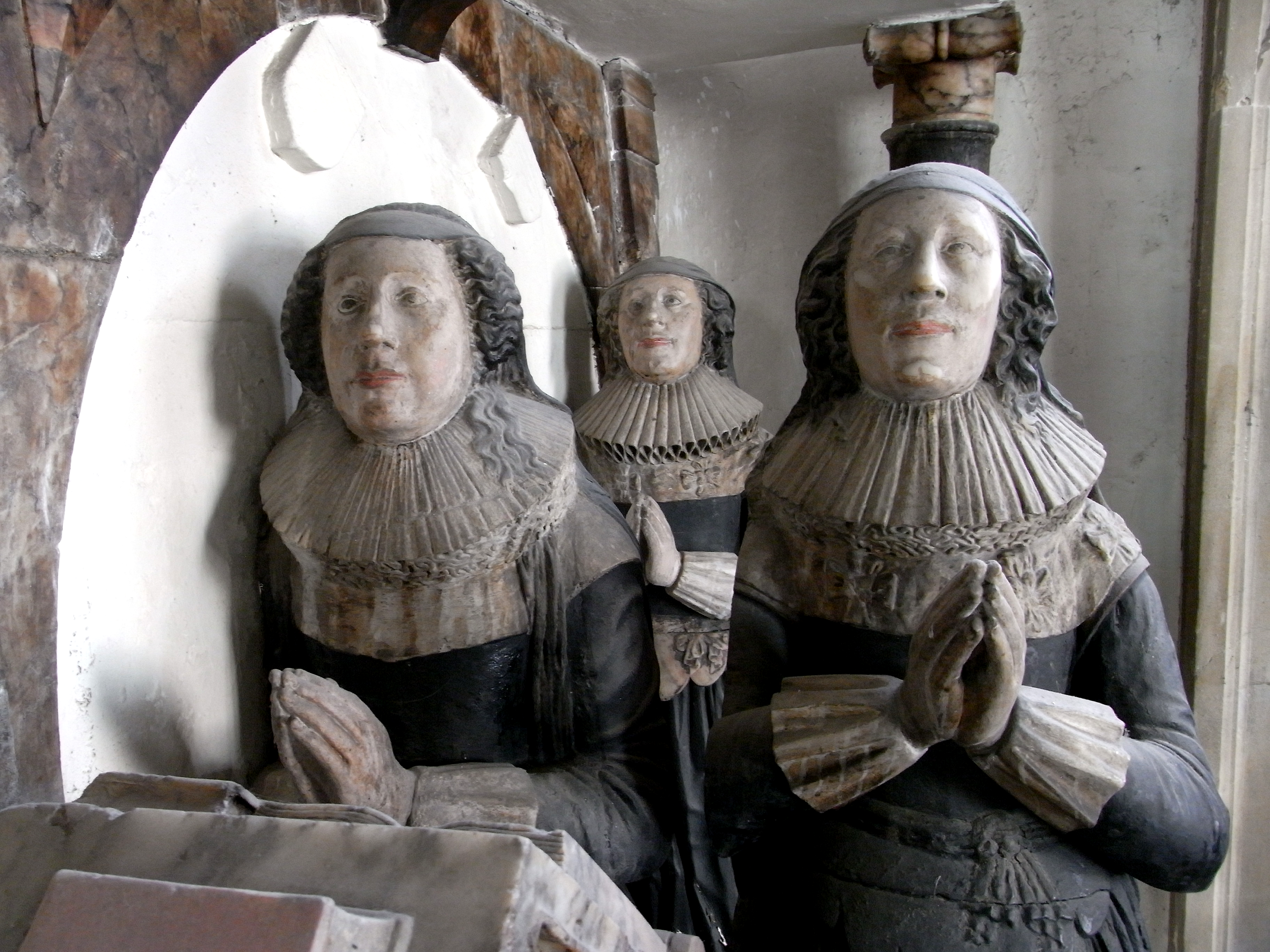 Wives and daughter of Sir Robert Chichester (1578-1627), Knight of the Bath, lord of the manor of Raleigh in the parish of Pilton in Devon, Custos Rotulorum and Deputy Lieutenant of Devon. Left: Second wife (who survived him) Mary Hill, a daughter of Robert Hill (d.1637) of Shilston in the parish of Modbury in Devon. Right: First wife, Frances Harington, one of the two daughters of John Harington, 1st Baron Harington (d. 1613) of Exton in Rutland, and a co-heiress of her brother John Harington, 2nd Baron Harington of Exton (1592-1614). Rear: Anne Chichester (d.1627) (Countess of Elgin), only daughter by first wife Frances Harington and first wife of Thomas Bruce, 1st Earl of Elgin (1599–1663), of Houghton House in the parish of Maulden in Bedfordshire, who died the day after having given birth to an only child Robert Bruce, 2nd Earl of Elgin, 1st Earl of Ailesbury (1626-1685). Her monument with sculpted recumbent effigy in white marble survives in Exton Church, Rutland.